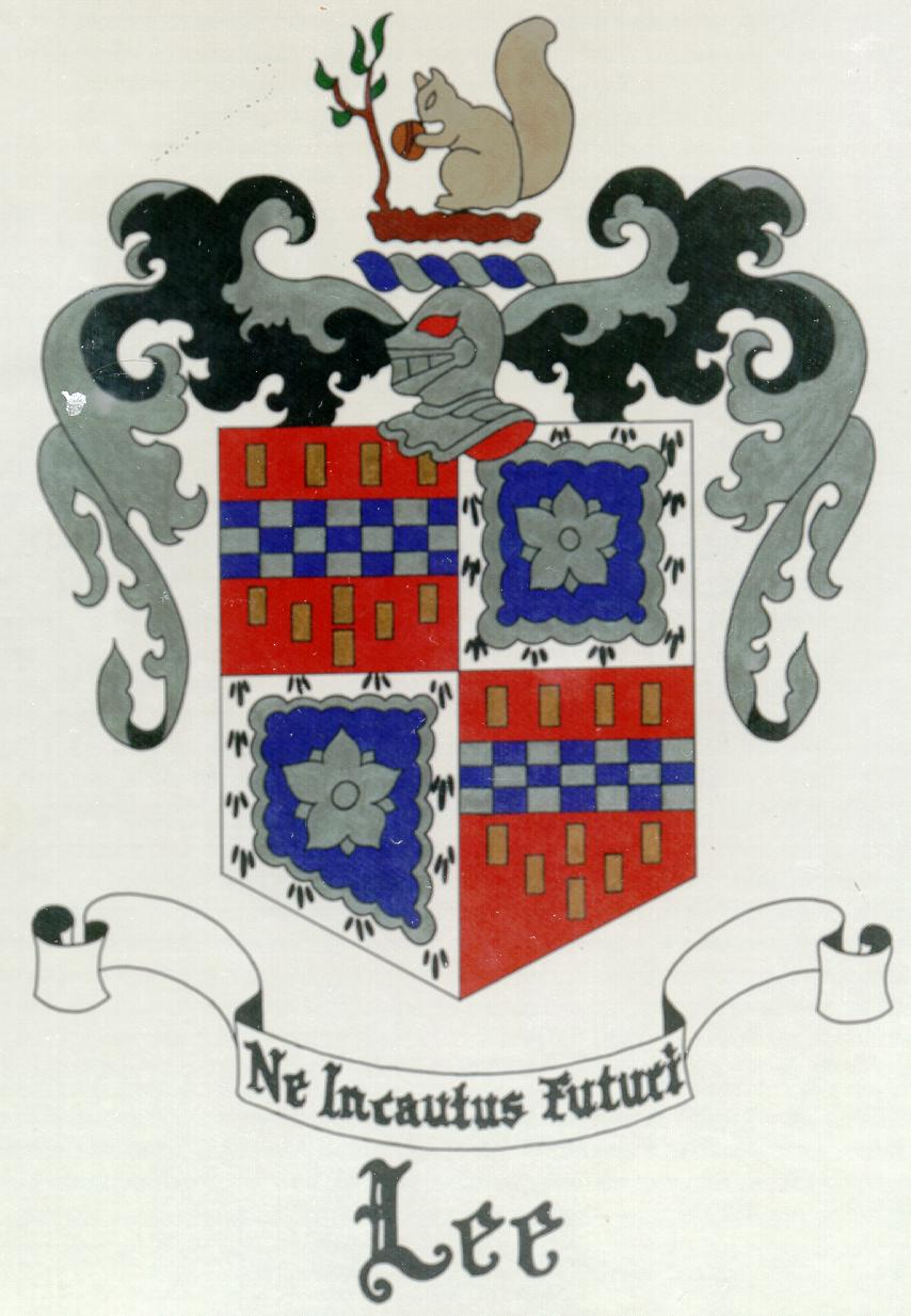 Lee Family Coat of Arms Description: “Gules, a fesse chequy or and azure between ten billets argent, four in chief, and three, two and one in base”. (On a red shield a broad horizontal bar composed of three rows of alternating blue and gold squares between ten silver oblong figures, four in the top part of the shield and six in the lower, arranged three, two, and one.). The Lees of Virginia have adhered to quartering their arms with that of the Astley family, which described them as follows: “Azure a cinqfoil pierced ermine within a bordure engrailed of the second” (On a blue field a pierced five-leaved figure, within a scalloped ermine border). However, this quartering was not used in the Virginia Lees until about the fourth generation, when Hon. Philip Ludwell Lee, Sr., Esq. (1727-1775) used it on his bookplate while a student at the Inner Temple in about 1750, and his brother Richard Henry Lee (1732-1794), who had it on his seal ring. The Lee crest consisted of: “On a staff raguly lying fesseways a squirrel sejant proper, cracking a nut (or acorn); from the dexter end of the staff a hazel (or oak) branch vert, fructed or”. (On a horizontal staff or branch, a squirrel sitting, depicted in its natural color, cracking a nut or acorn. From the right end of the staff hazel or oak branch, bearing golden fruit). The motto “Ne Incautus Futuri” which translates into “Be not unmindful of the future” Downloader is a descendant of the Lees of Virginia, and member of the Society of the Lees of Virginia.